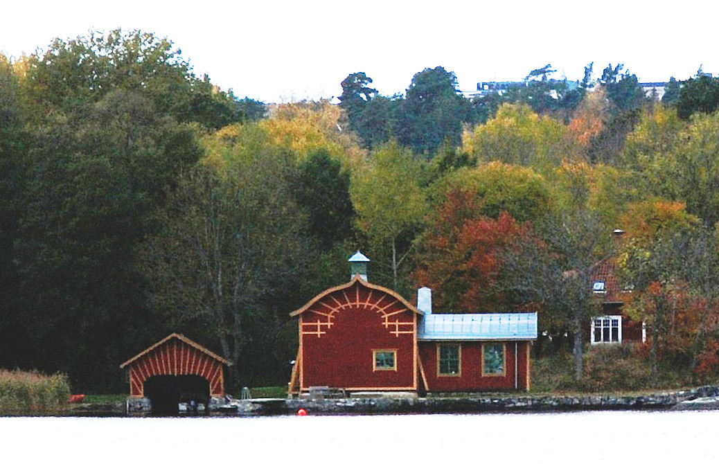 C.R. Nyberg´s Täcka Udden in Lidingö in Sweden, with the oldest hangar in Sweden, erected 1908 and now a listed building (byggnadsminne).